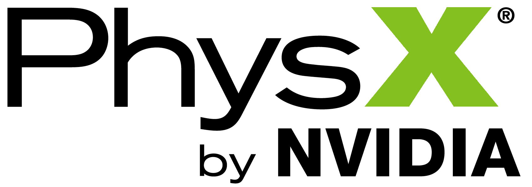 NVIDIA PhysX Logo